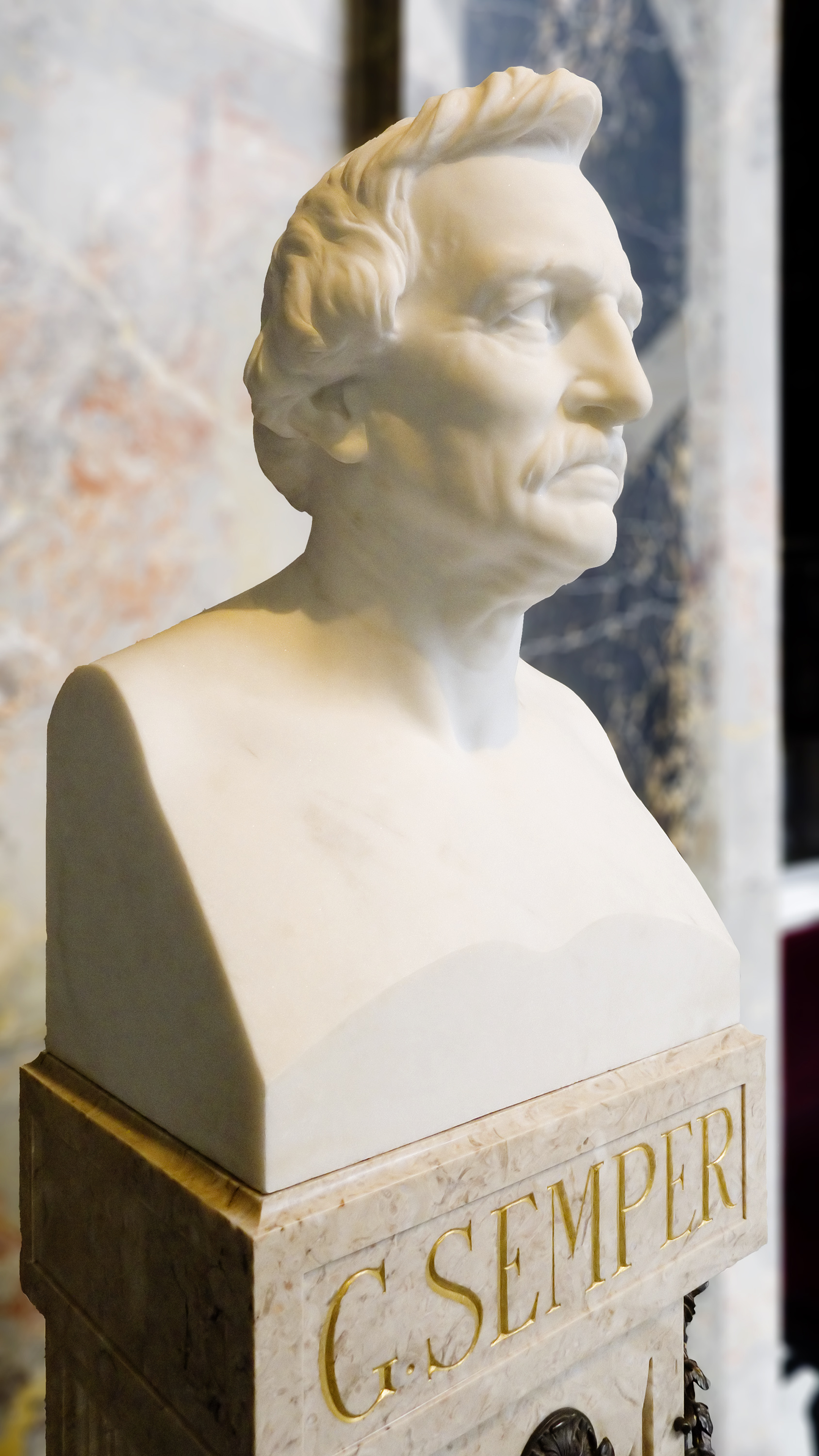 Bust of architect Gottfried Semper Wien, Austria